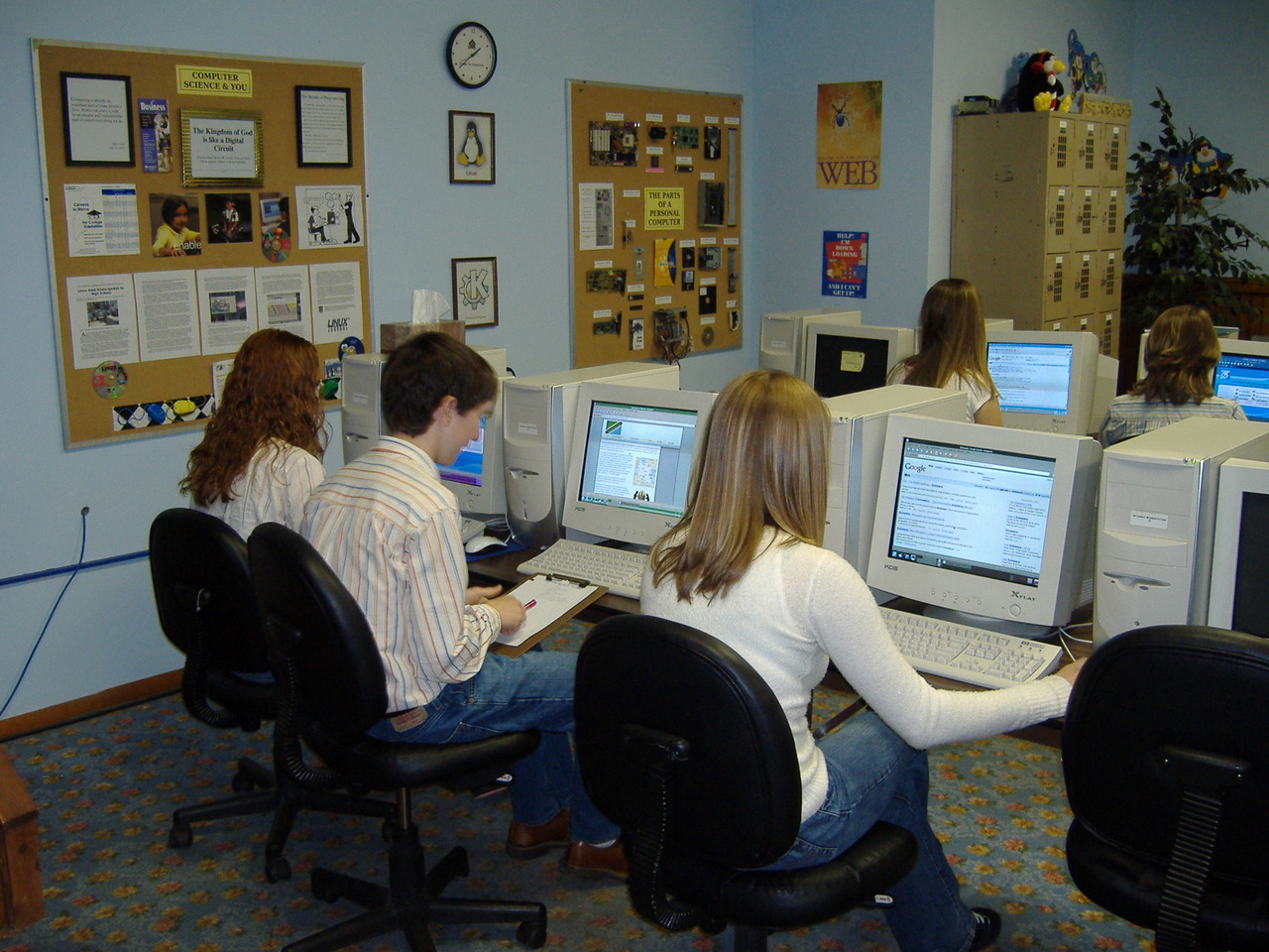 These computer run on Gentoo Linux!